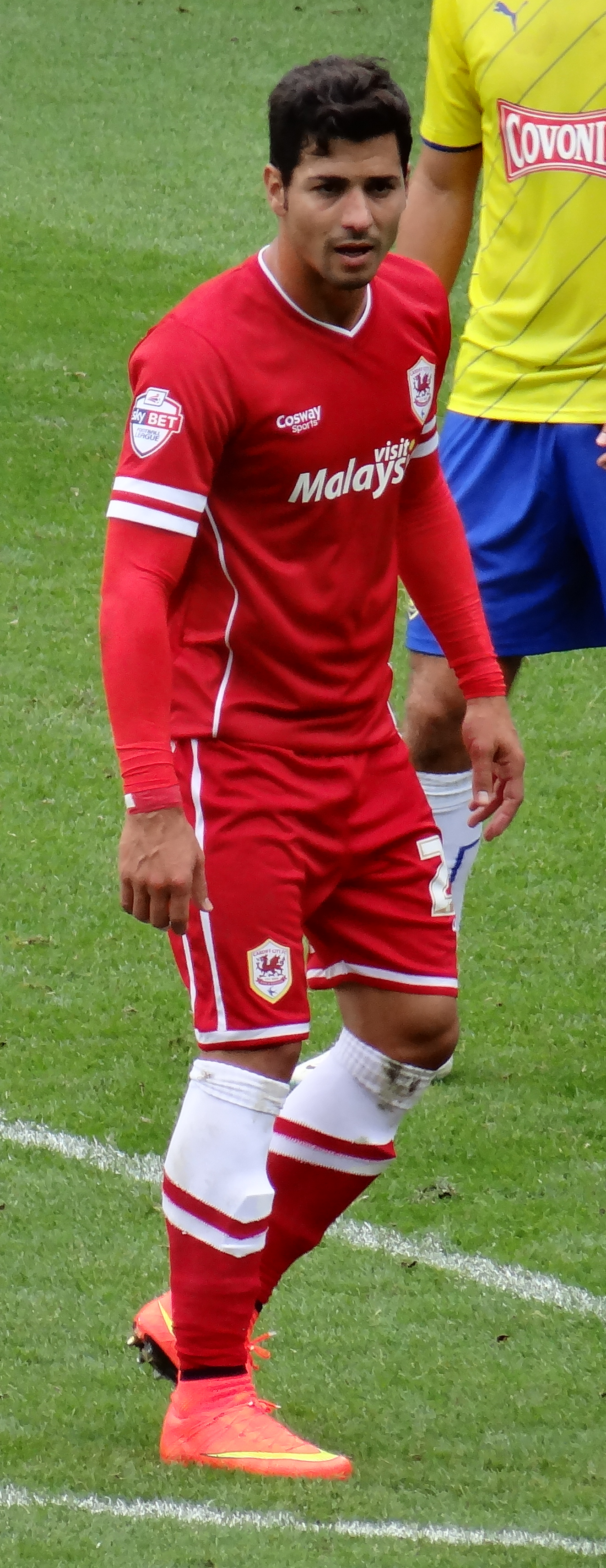 Javi Guerra playing for Cardiff City against Huddersfield Town